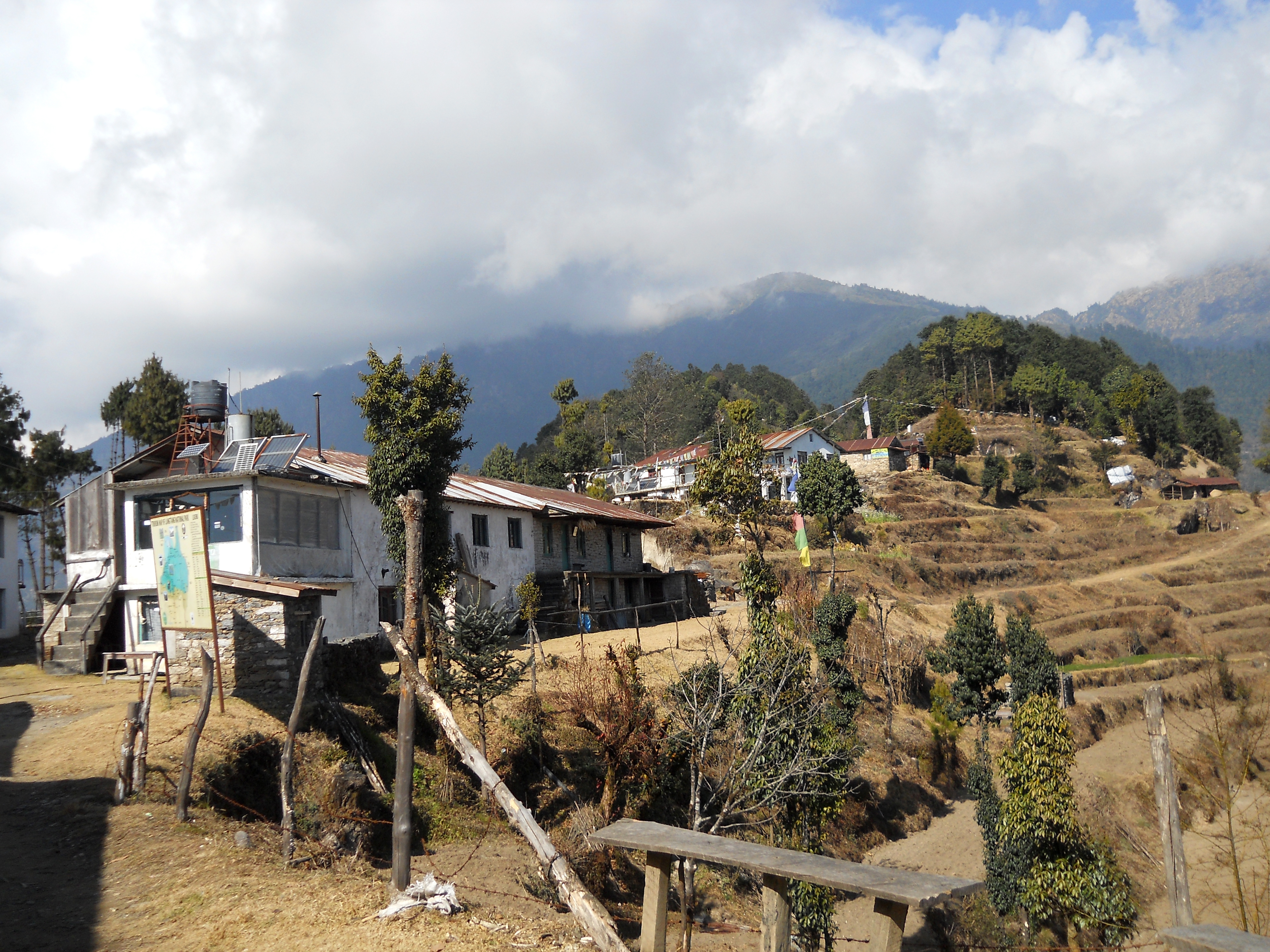 Kutumsang